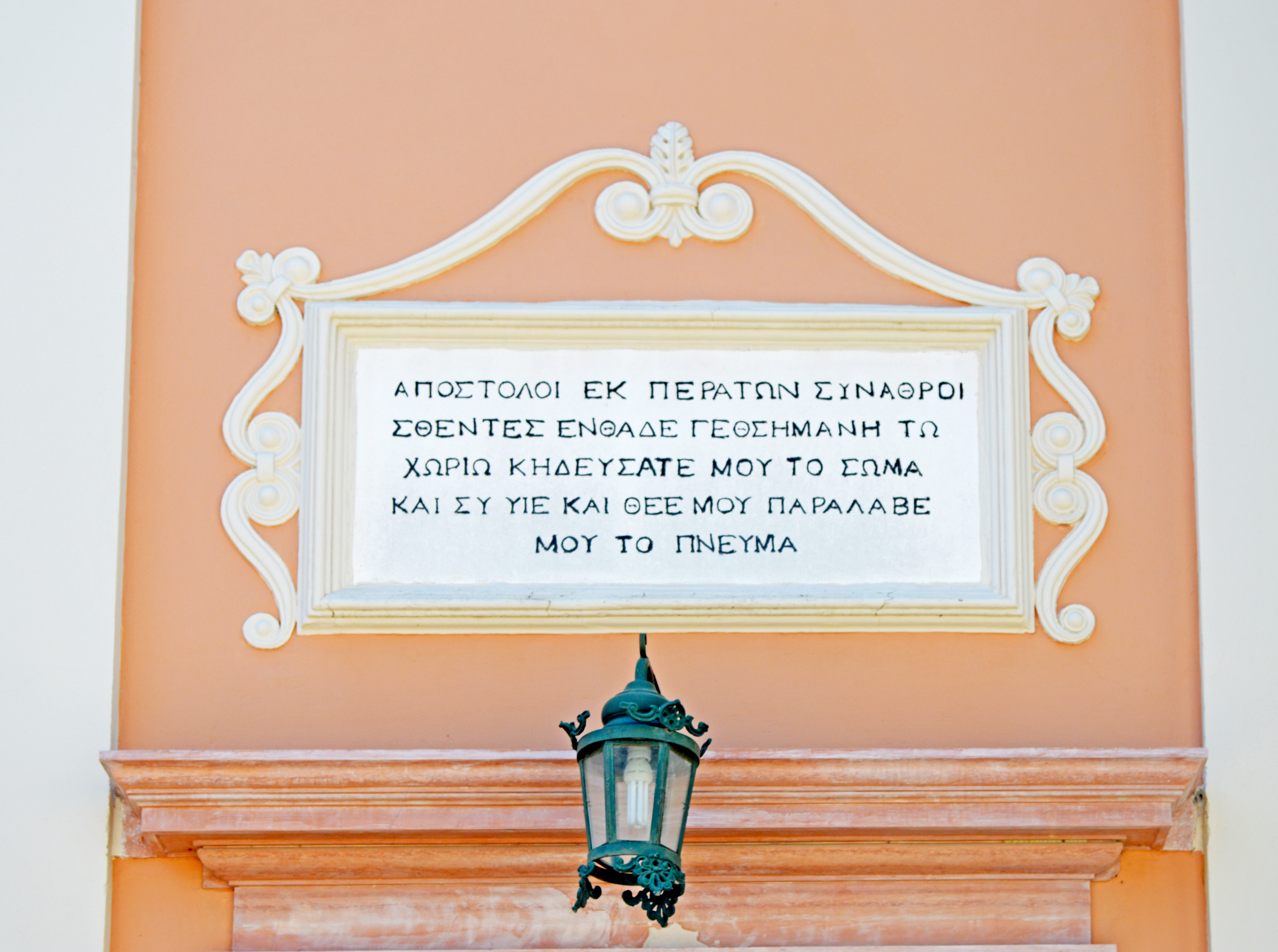 Corfu. The inscription above the entrance to the cathedral of the monastery Platitera. Text (Exapostilarion) on the Feast of the Assumption of the Mother of God.